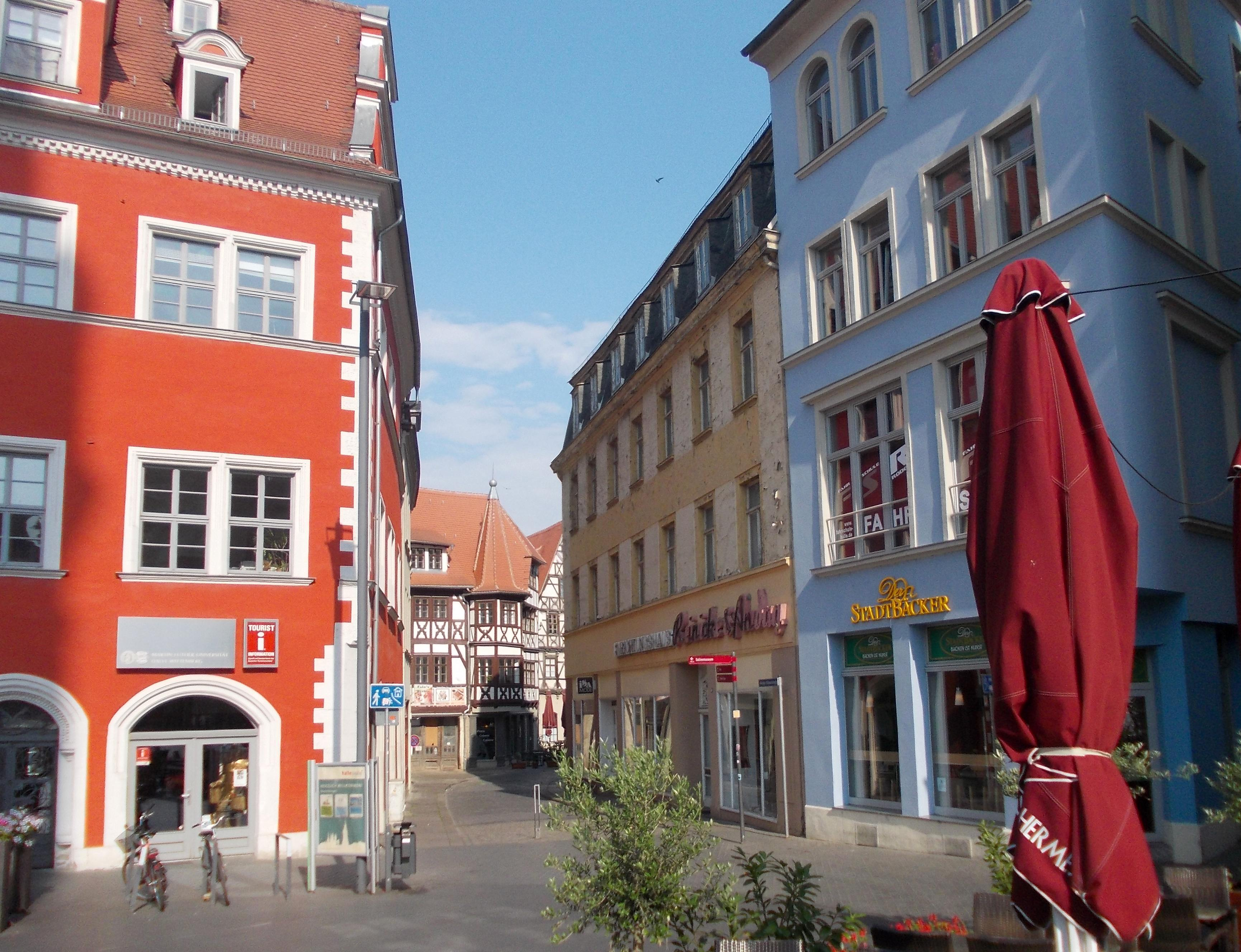 Grosse Klausstrasse in Halle/Saale (Saxony-Anhalt)